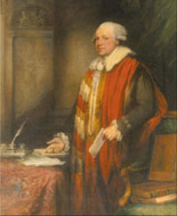 Portrait of Henry Herbert, 1st Earl of Carnarvon (1741-1811)